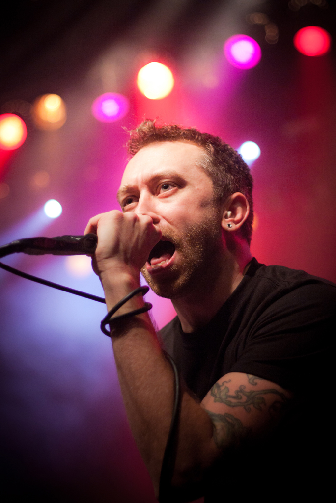 Tim McIlrath performing in Paraguay, 2011. Cropped from the original.